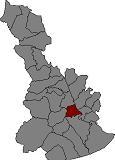 Location of Santa Coloma de Cervelló in Baix Llobregat